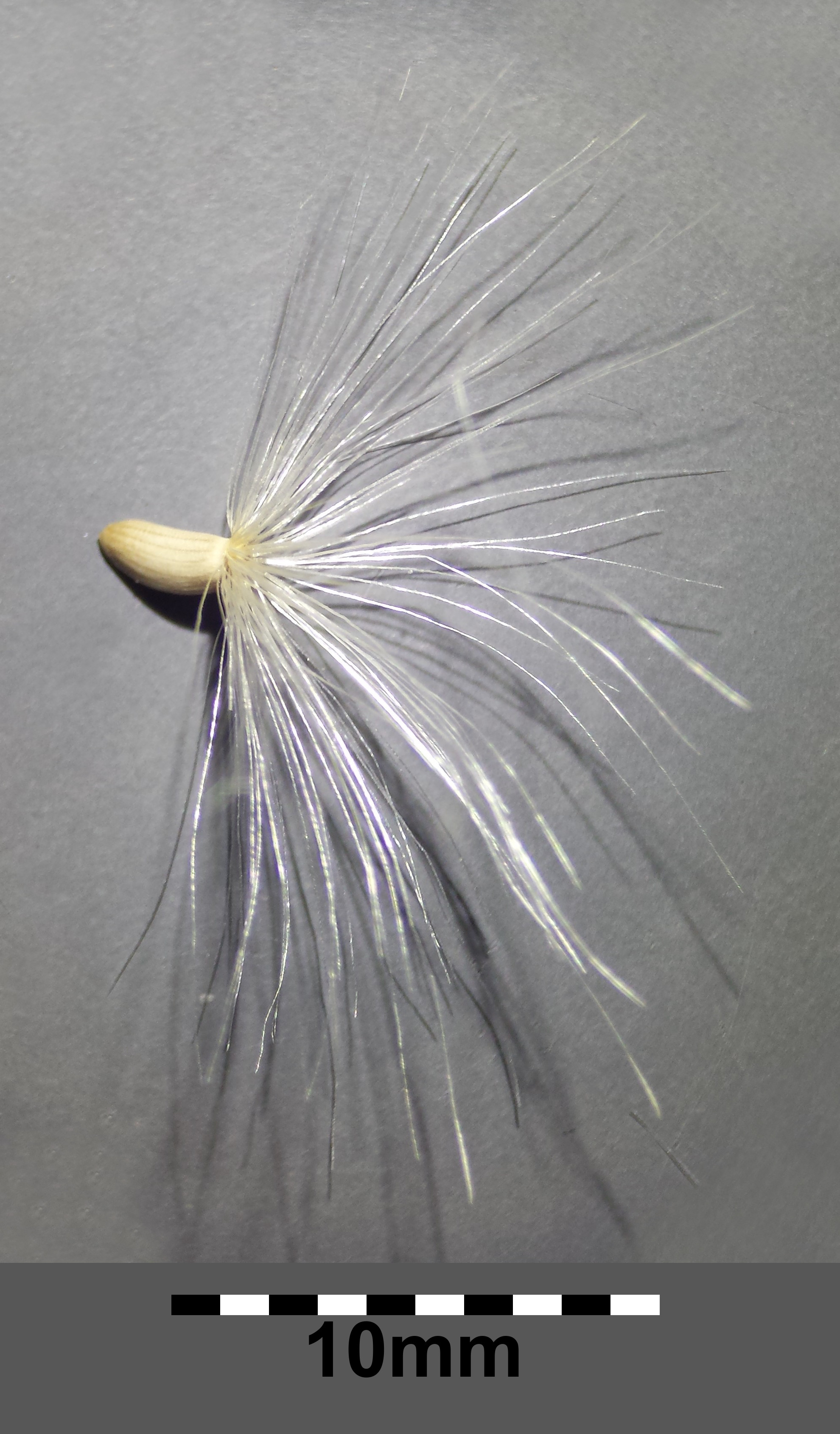 Fruit with pappus Taxonym: Carduus acanthoides ss Fischer et al. EfÖLS 2008 ISBN 978-3-85474-187-9 Location: Neue Donau, Vienna-Floridsdorf - ca. 160 m a.s.l. (leg.: 2015-07-06) Habitat: dry meadows